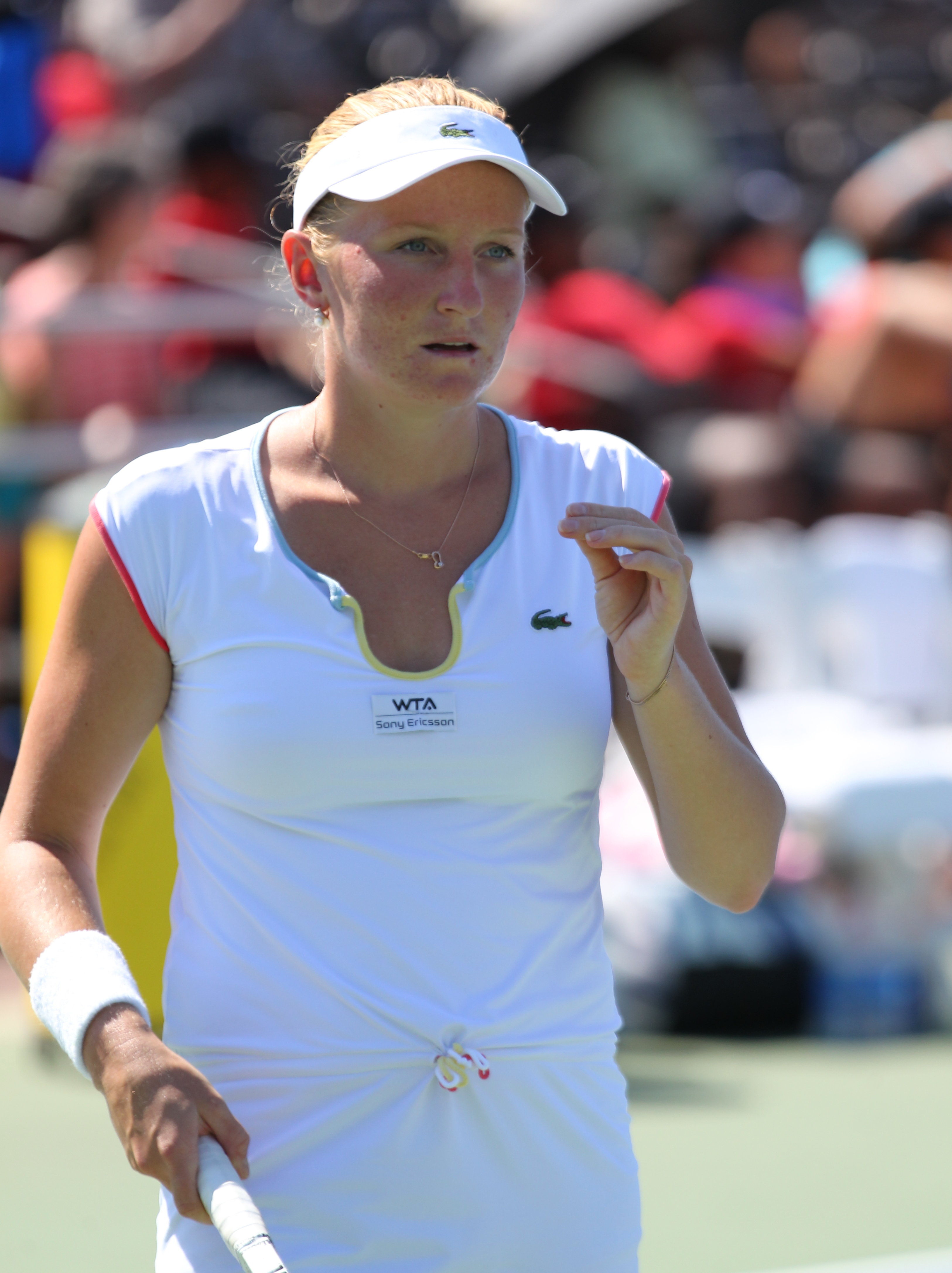 Citi Open Tennis Finals July 31, 2011